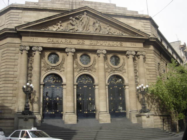 Image of the chamber of deputies building, Mexico city